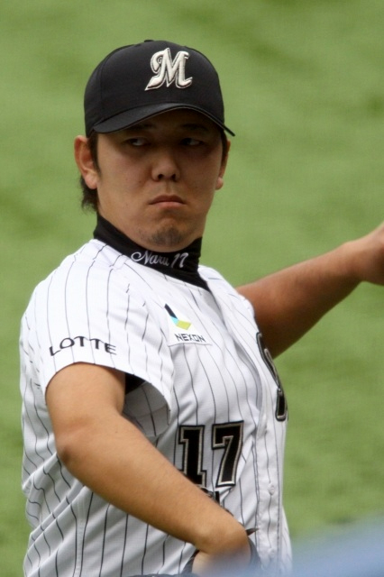 Yoshihisa Naruse, pitcher of the Chiba Lotte Marines.